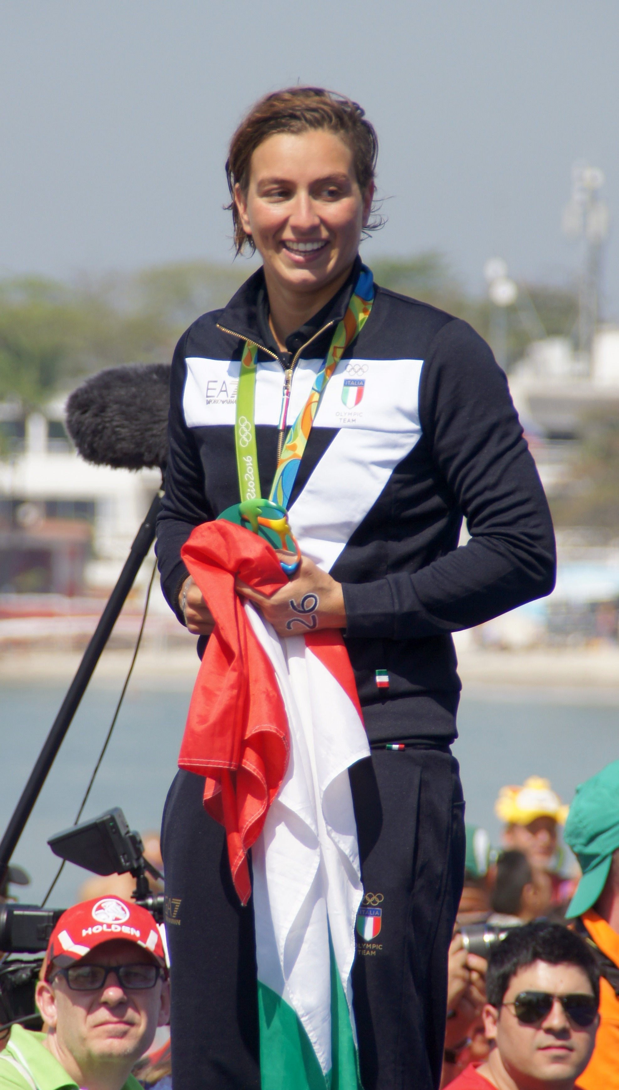 Medalha de prata/Silver medalist: Rachele Bruni. Itália/Italy slt.a33